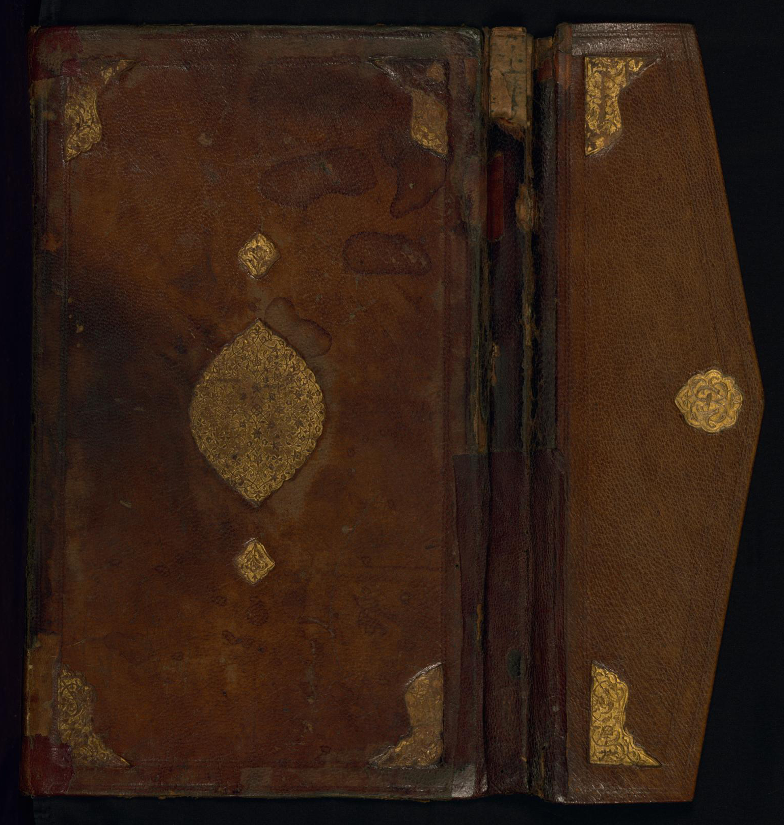 Walters manuscript W.590 is a manuscript copy of al-Misbah al-munir fi gharib al-Sharh al-Kabir by Ahmad ibn Muhammad al-Muqri al-Fayyumi (died ca. 770 AH/AD 1368). It is a dictionary of Islamic legal terms that was originally written as a gloss on the commentary of 'Abd al-Karim al-Rafi'i (died 623 AH/AD 1226) on al-Wajiz fi al-furu' by Abu Hamid Muhammad ibn Muhammad al-Ghazzali (died 505 AH/AD 1111), entitled Fath al-'aziz 'alá kitab al-Wajiz. The manuscript was copied by the shi`ite scribe 'Ali ibn Muhibb 'Ali in 1083 AH/AD 1673 in Iran. The text was later collated with three other manuscripts in Mecca in 1166 AH/AD 1752 by Muhammad al-Atrabazundi. The light brown goatskin binding with gold-tooled oval central medallion, pendants, and cornerpieces is contemporary with the manuscript.